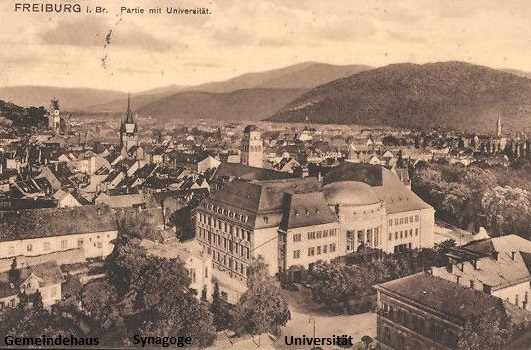 Old Synagoge, Freiburg im Breisgau, 1913